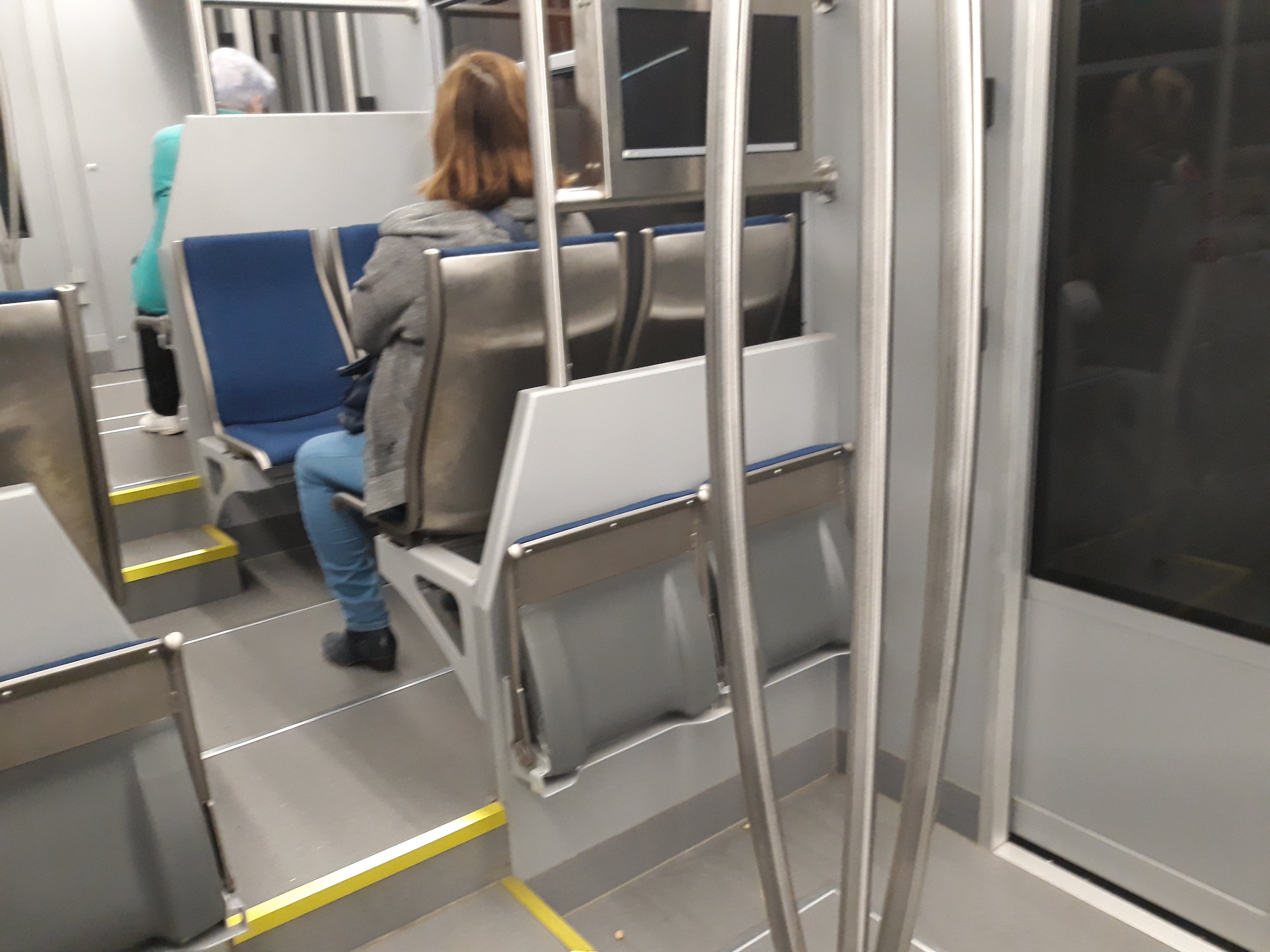 Carmelit subway in Haifa after its reopening in 2018